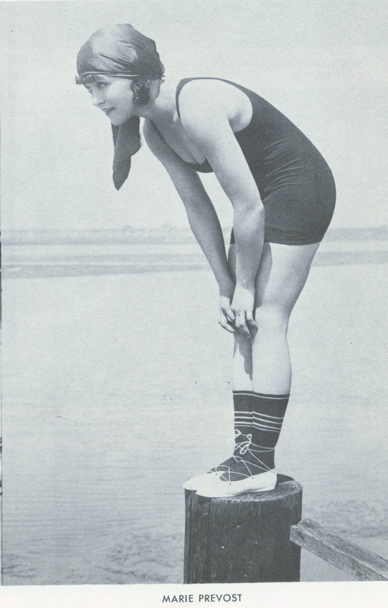 Marie Prevost was a Mack Sennett's bathing beauty.